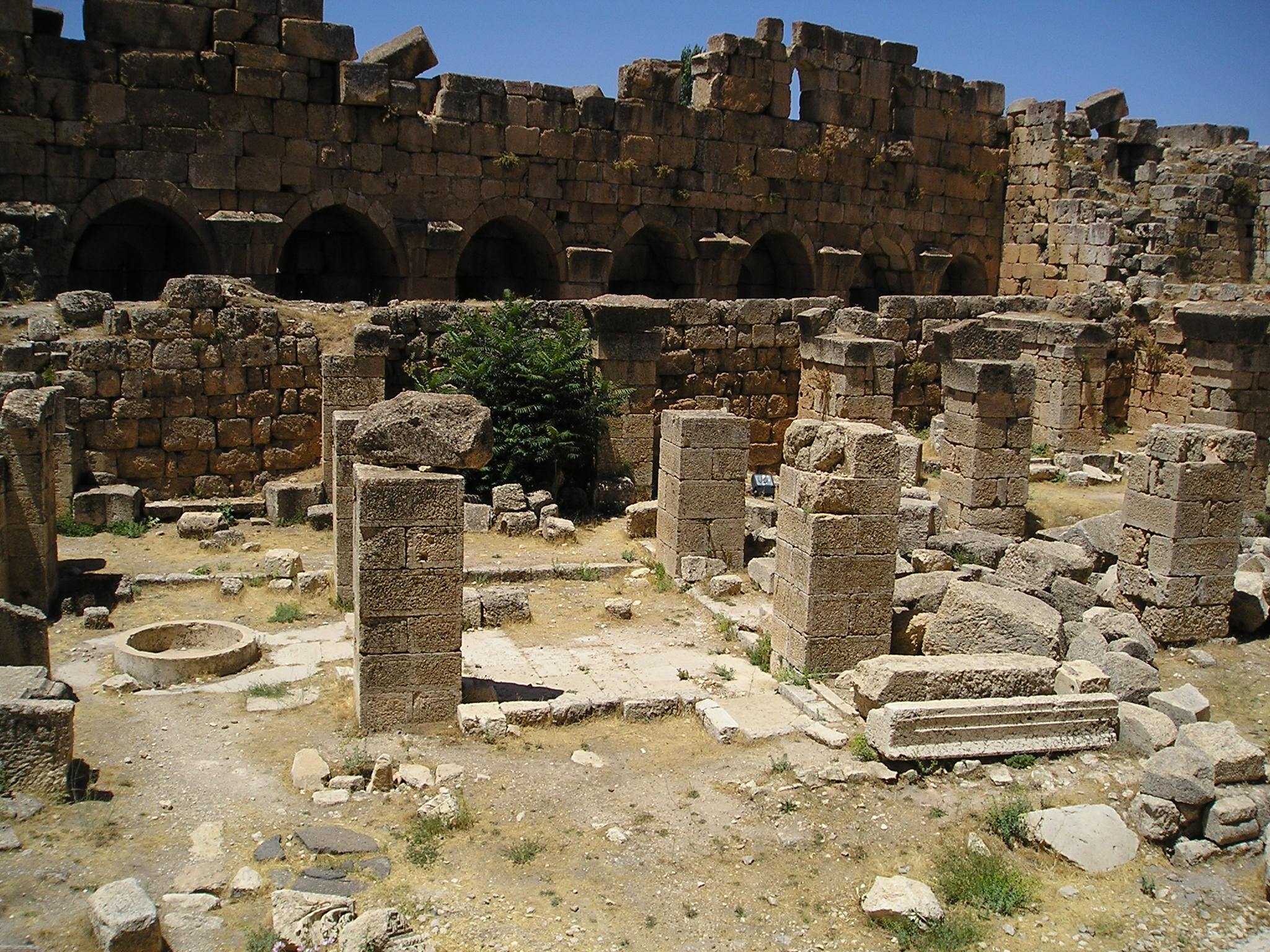 Baalbek, Lebanon - pillars that probably formed parts of the former mosque; remains of the Arab fortification in background